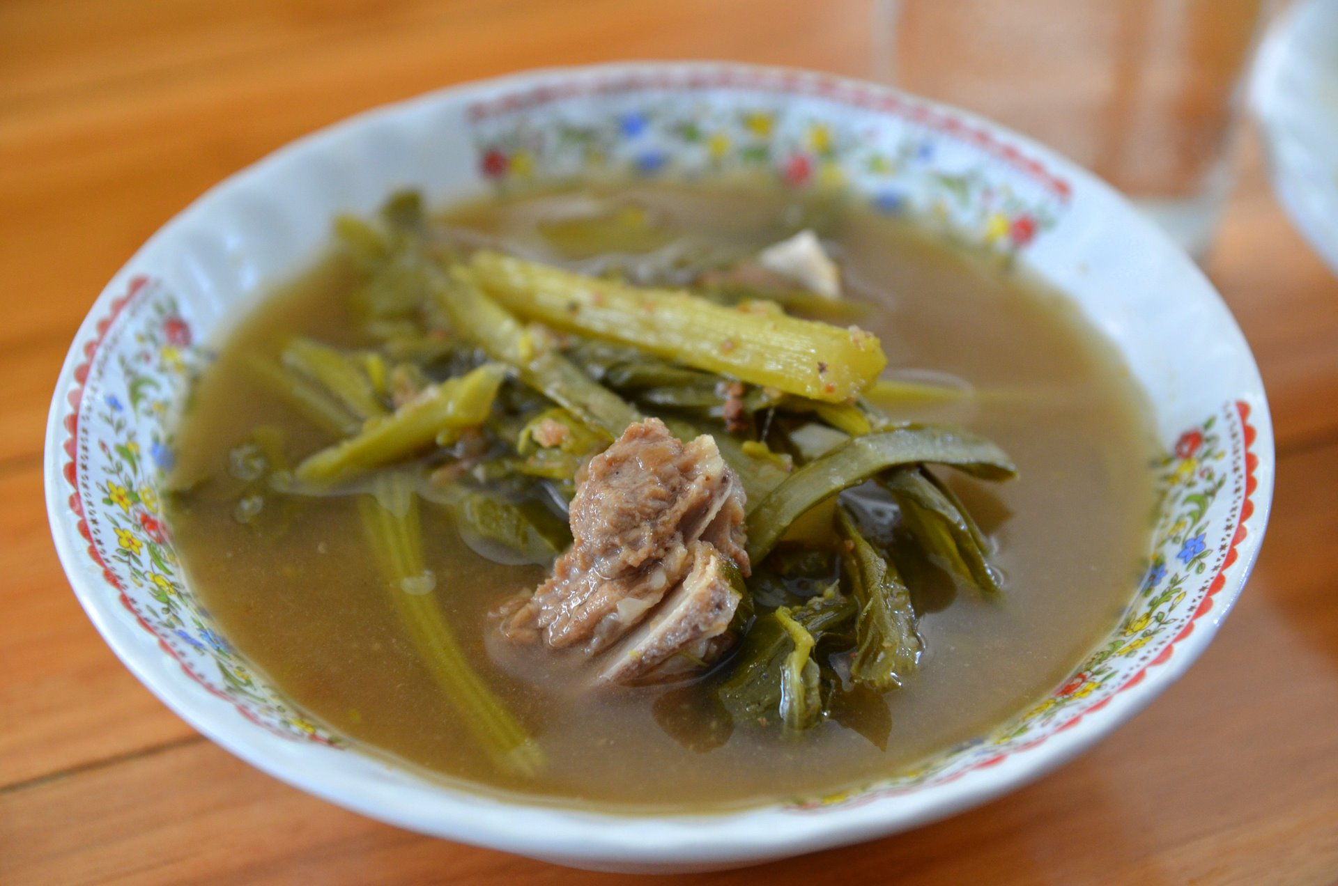 Kaeng phak kat cho kraduk mu (Thai script: แกงผักกาดจอกระดูกหมู): A spicy soup/curry (kaeng) made with cabbage (phak kat cho, a variety of Brassica rapa chinensis) and pork ribs (kraduk mu). This is a Northern Thai dish and this particular version was not very spicy at all, slightly sour and fairly sweet.